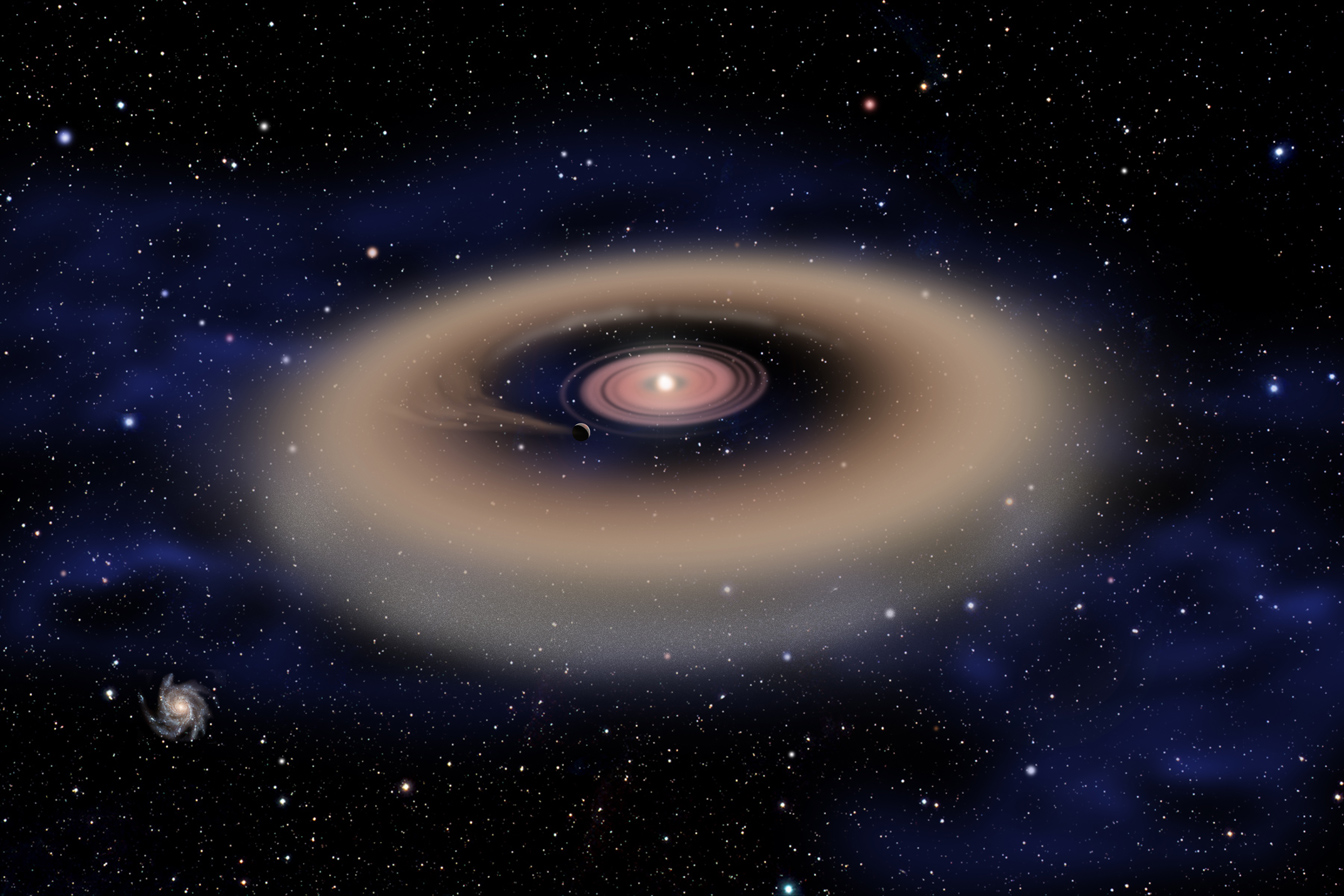 This artist's conception shows a Jupiter-sized planet forming from a disk of dust and gas surrounding a young, massive star. The planet's gravity has cleared a gap in the disk. Of more than 500 stars examined in the W5 star-forming region, 15 show evidence of central clearing that may be due to forming planets. Image credit: David A. Aguilar, CfA